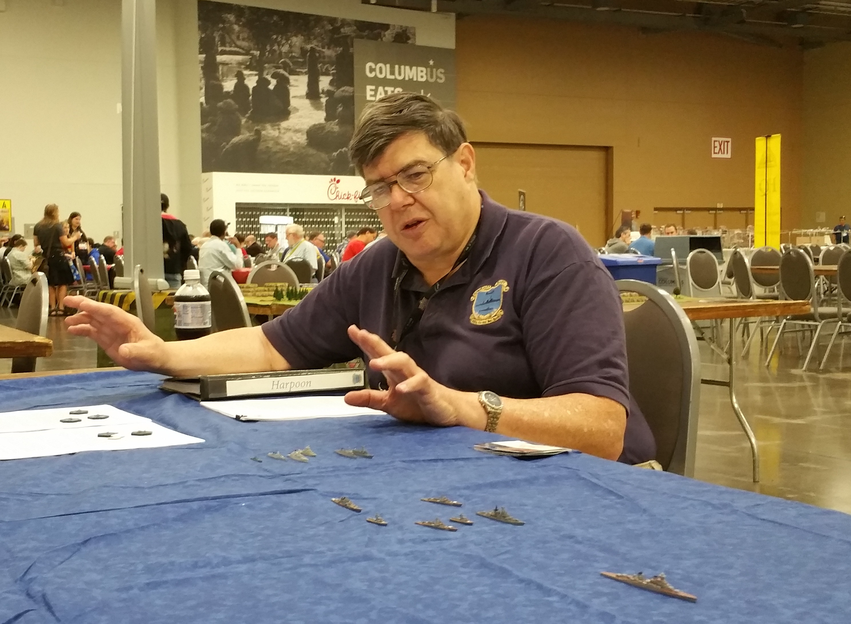 Author Larry Bond, creator of the Harpoon family of games, is moderating a modern era naval battle using his Harpoon rules at Origins in Columbus, Ohio in 2018.